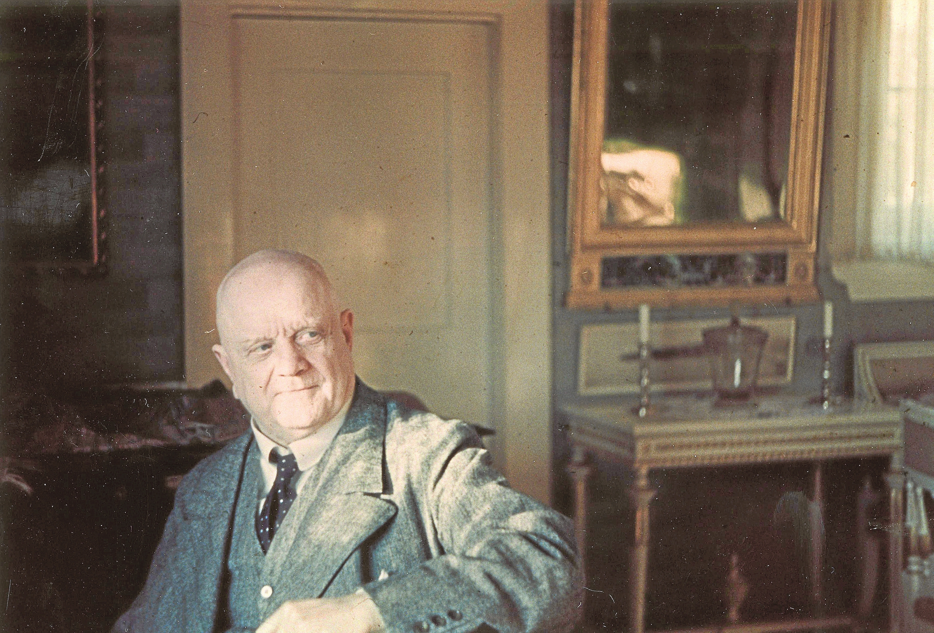 Photograph of the Finnish composer Jean Sibelius in colour.